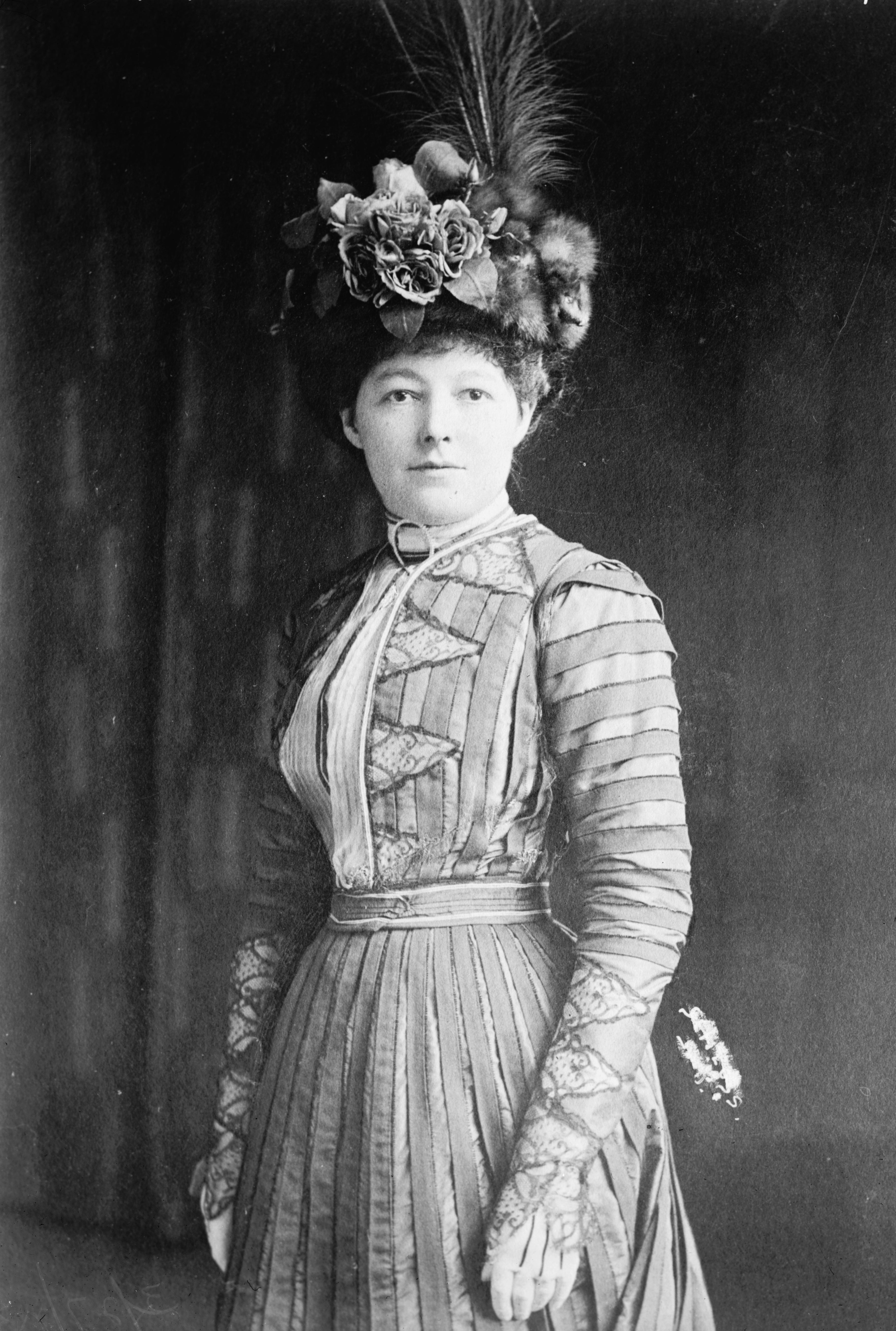 Actress May Yohe, photoportrait, standing, 3/4 length.